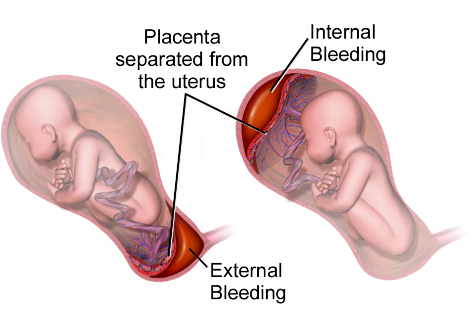 Placental Abruption. See a full animation of this medical topic.